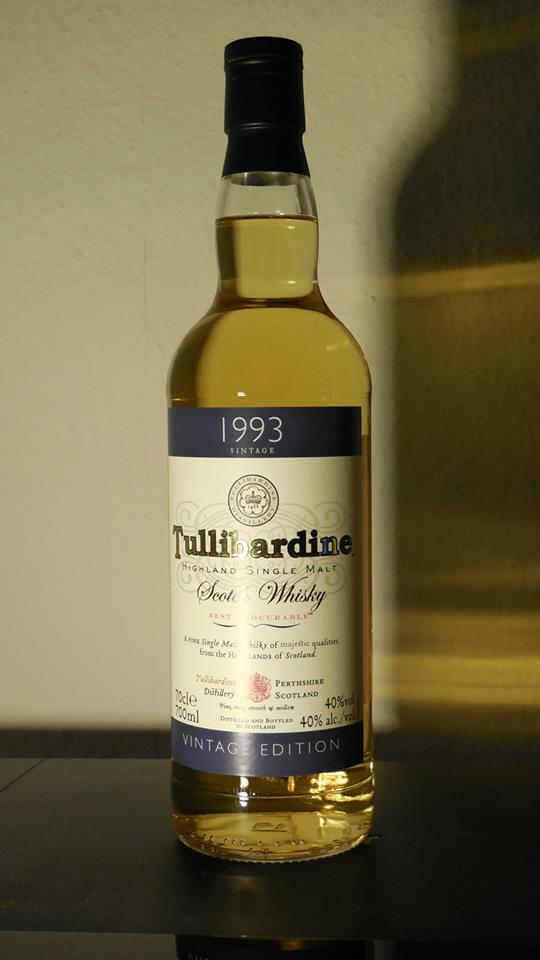 Tullibardine Single Malt whisky bottled in 1993 just before the distillery was temporarily mothballed